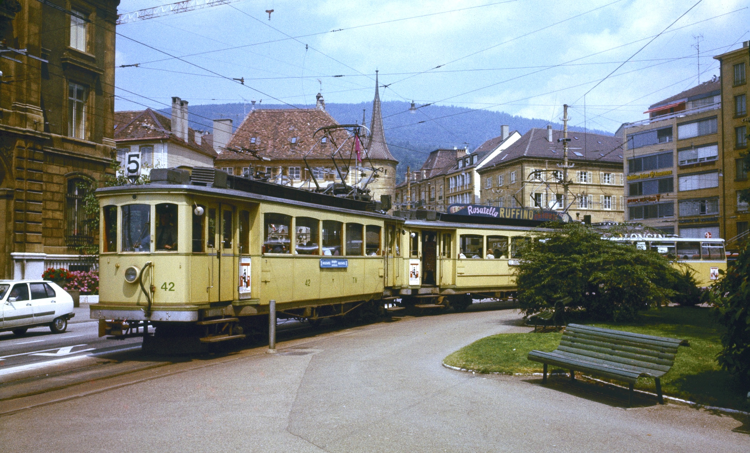 A Neuchâtel tram set composed of 1902-built cars 42 and 44 departs Place Pury in Neuchâtel for Boudry, on line 5, in 1979. These tramcars were among seven double-ended (bi-directional), double-truck trams built for the Neuchâtel tram system in 1902 by SWS, numbered 41–47. Most of them remained in service for almost 80 years, the last active units being retired in 1981. The Place Pury loop shown here was closed in 1988 and replaced by a stub-end terminus located nearby, to the southwest.